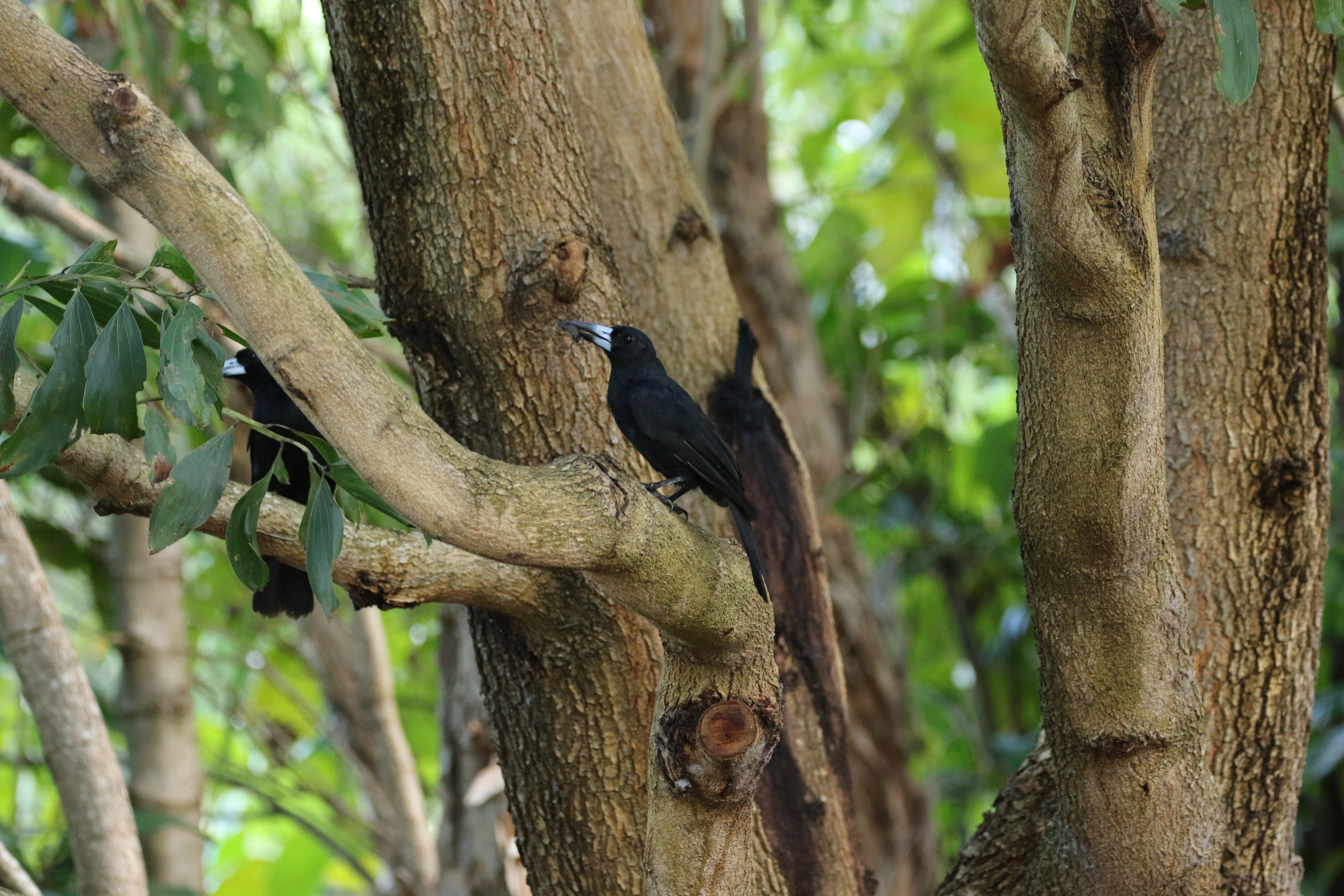 Cracticus quoyi (Lesson, 1827), Black Butcherbird, Cattana Wetlands, Smithfield, Queensland, 19 January 2016